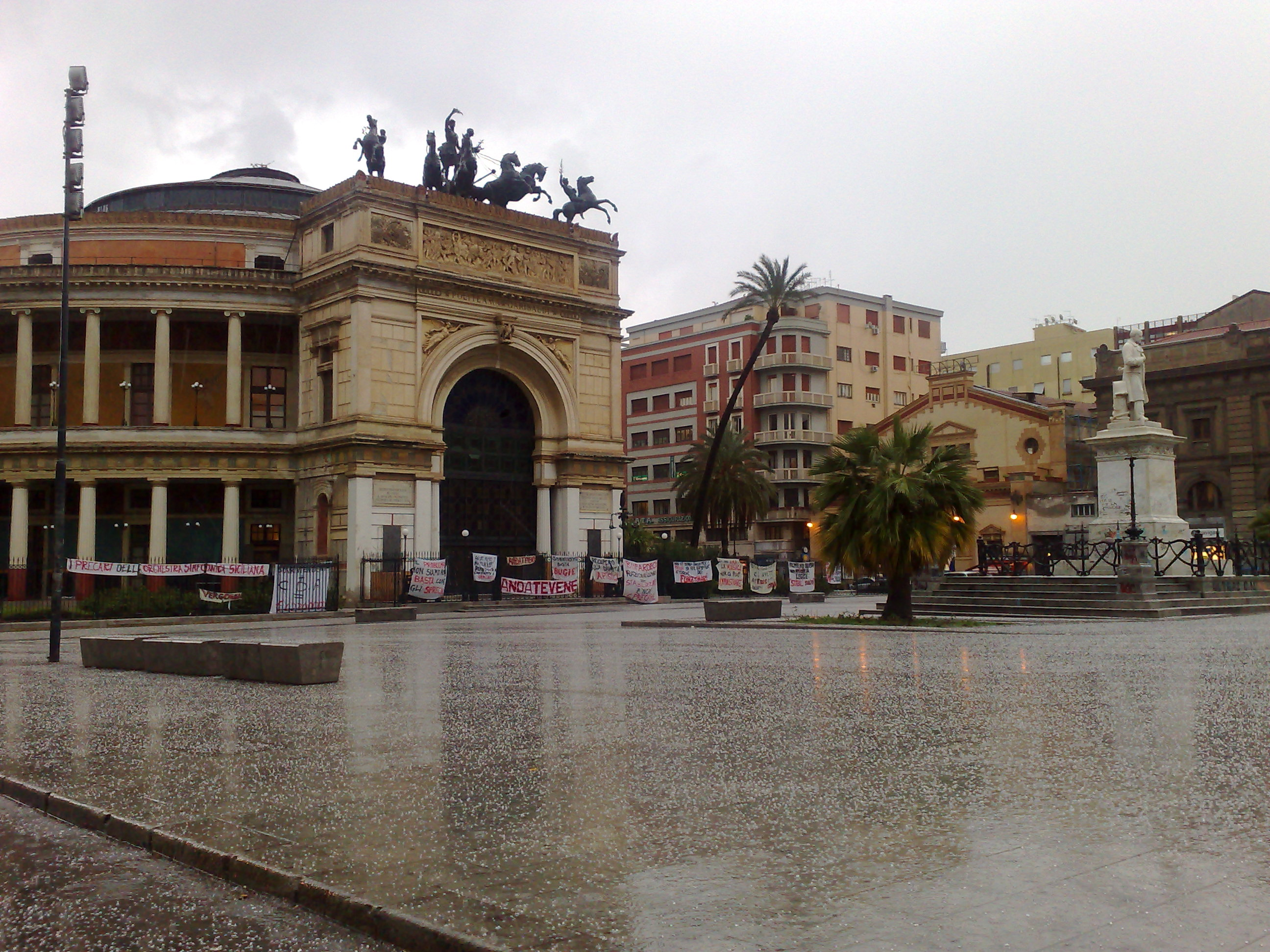 Snow in Palermo, Piazza Politeama